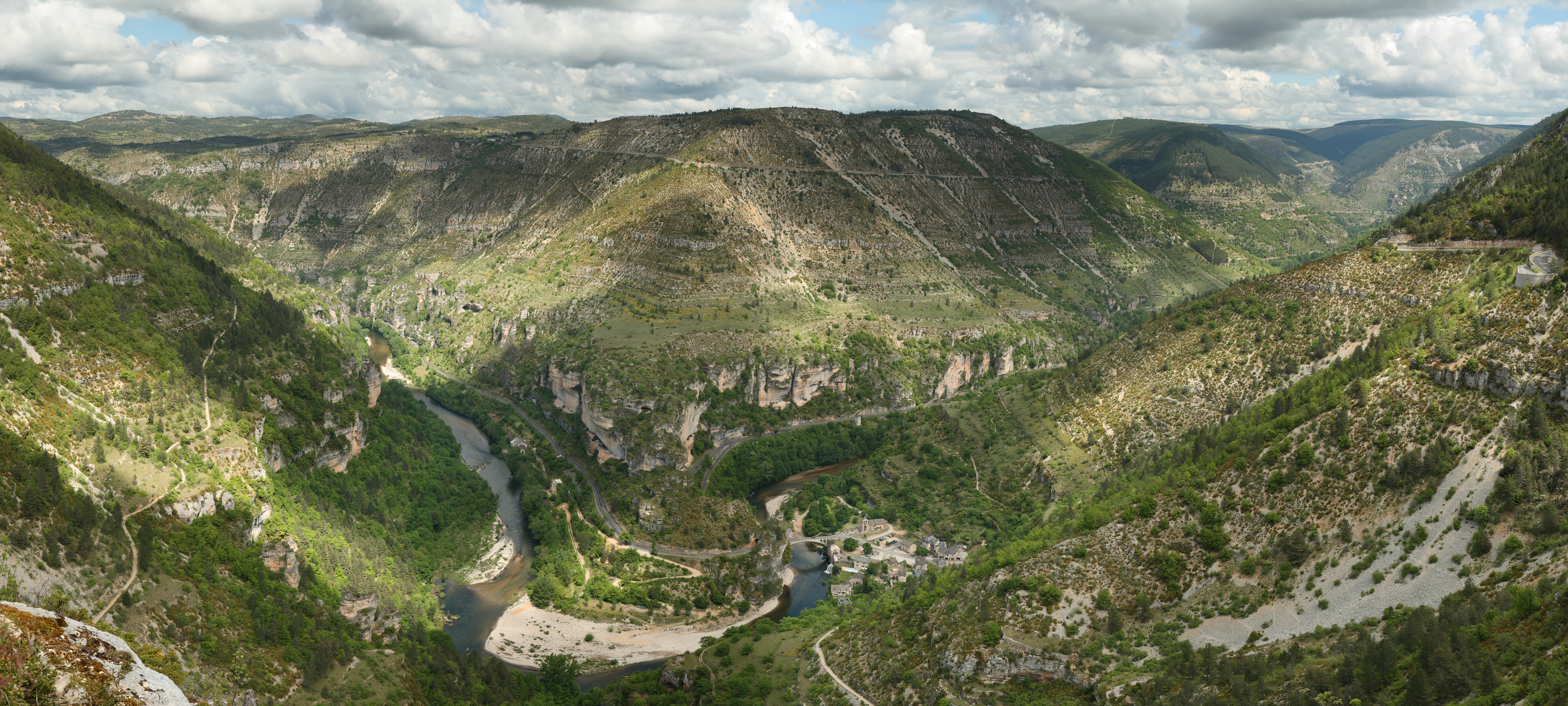 View over the cirque of Pougnadoires and Saint-Chély-du-Tarn village, in the Tarn Gorges, from the cirque of Saint-Chély. This picture features the road D 907bis which goes alongside the Tarn river all along the gorges. This picture is a mosaic of 14 pictures taken at 43mm, f/8.0, 1/250s and ISO 100. Stitching was done with Hugin and Enblend. Resulting hozirontal FOV is 118°.